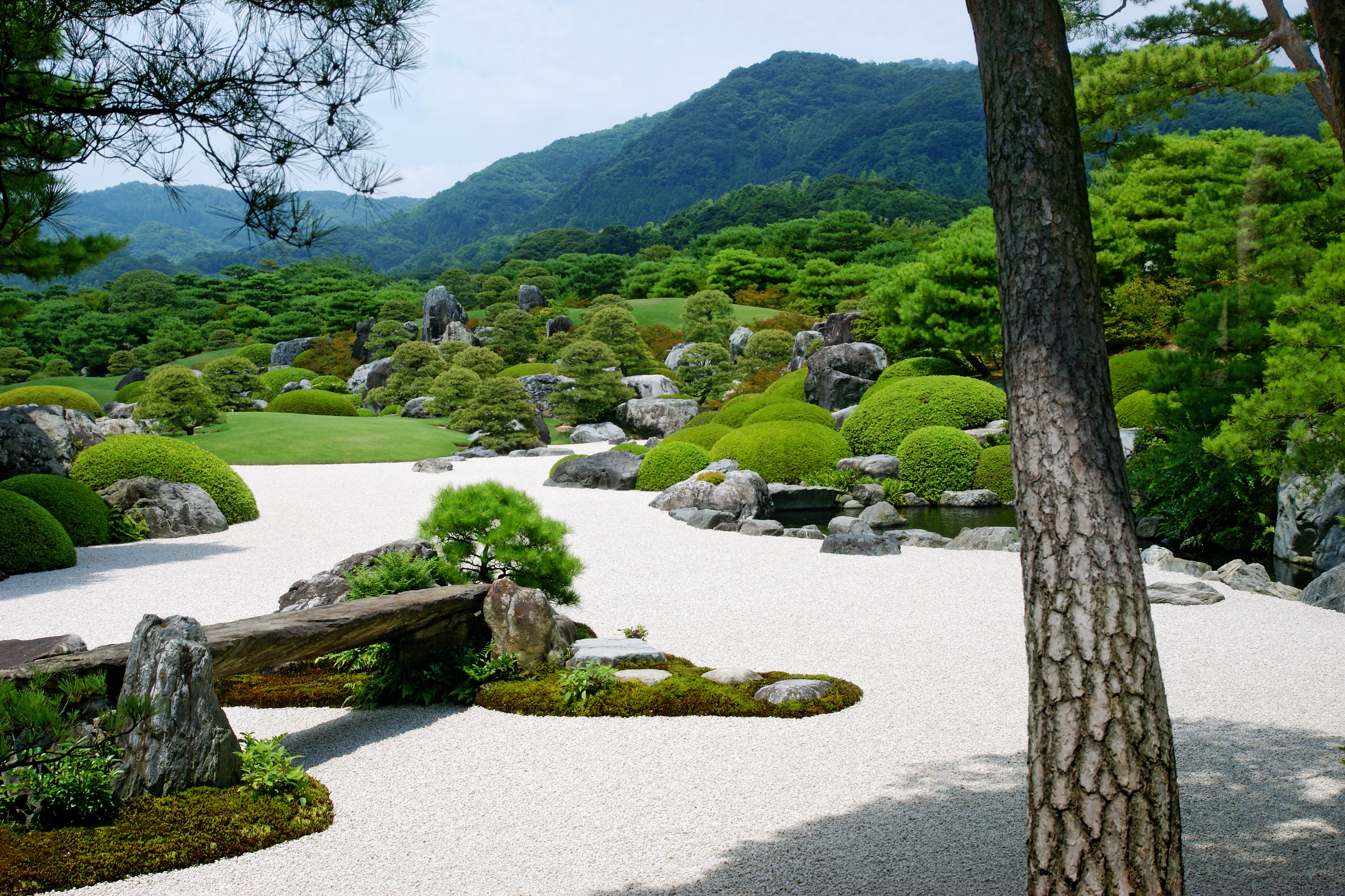 Adachi Museum of Art in Yasugi, Shimane prefecture, Japan